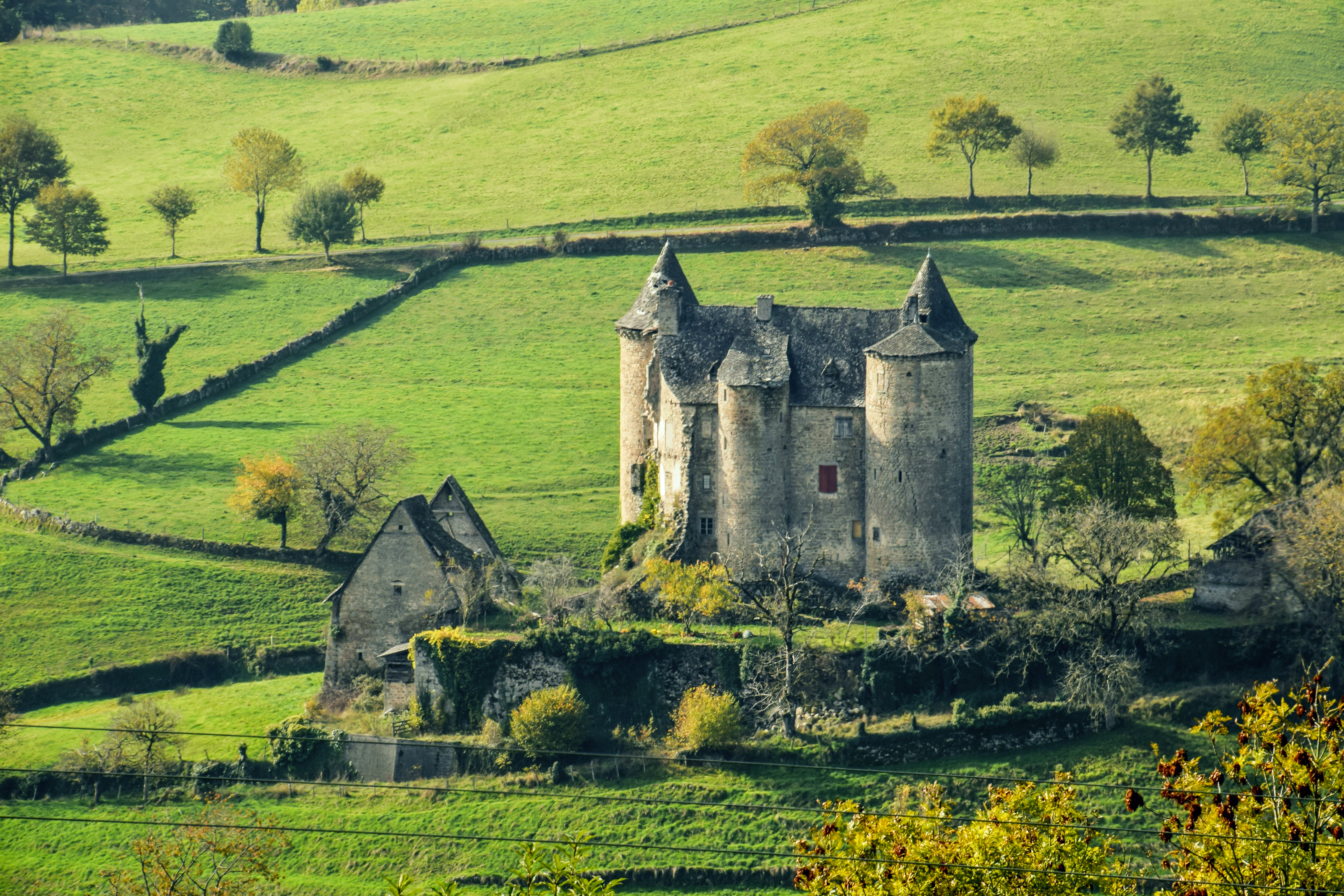 Château de Réghaud in Sénezergues, Cantal, France .